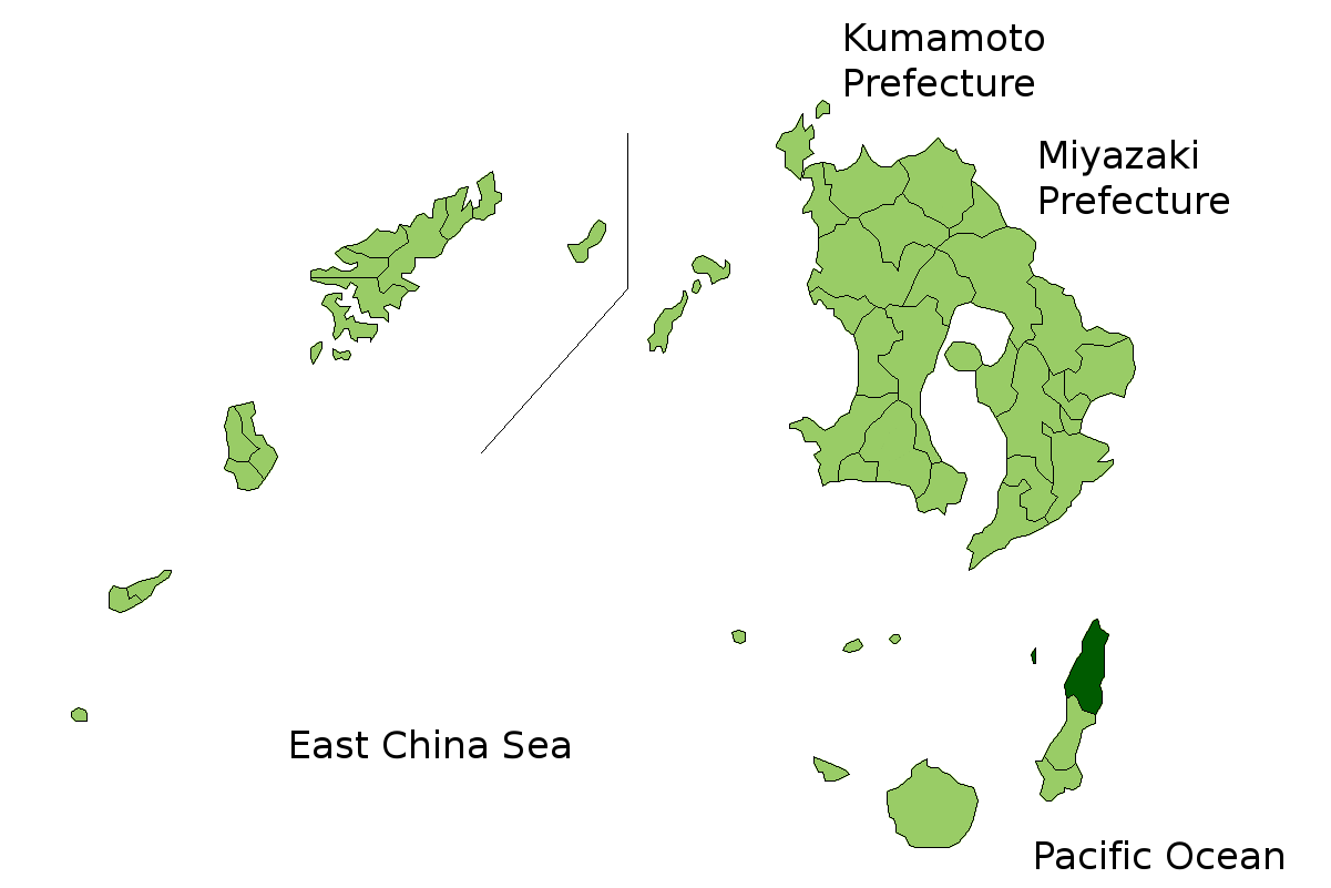 Location Map of Nishinoomote in Kagoshima Prefecture, Japan